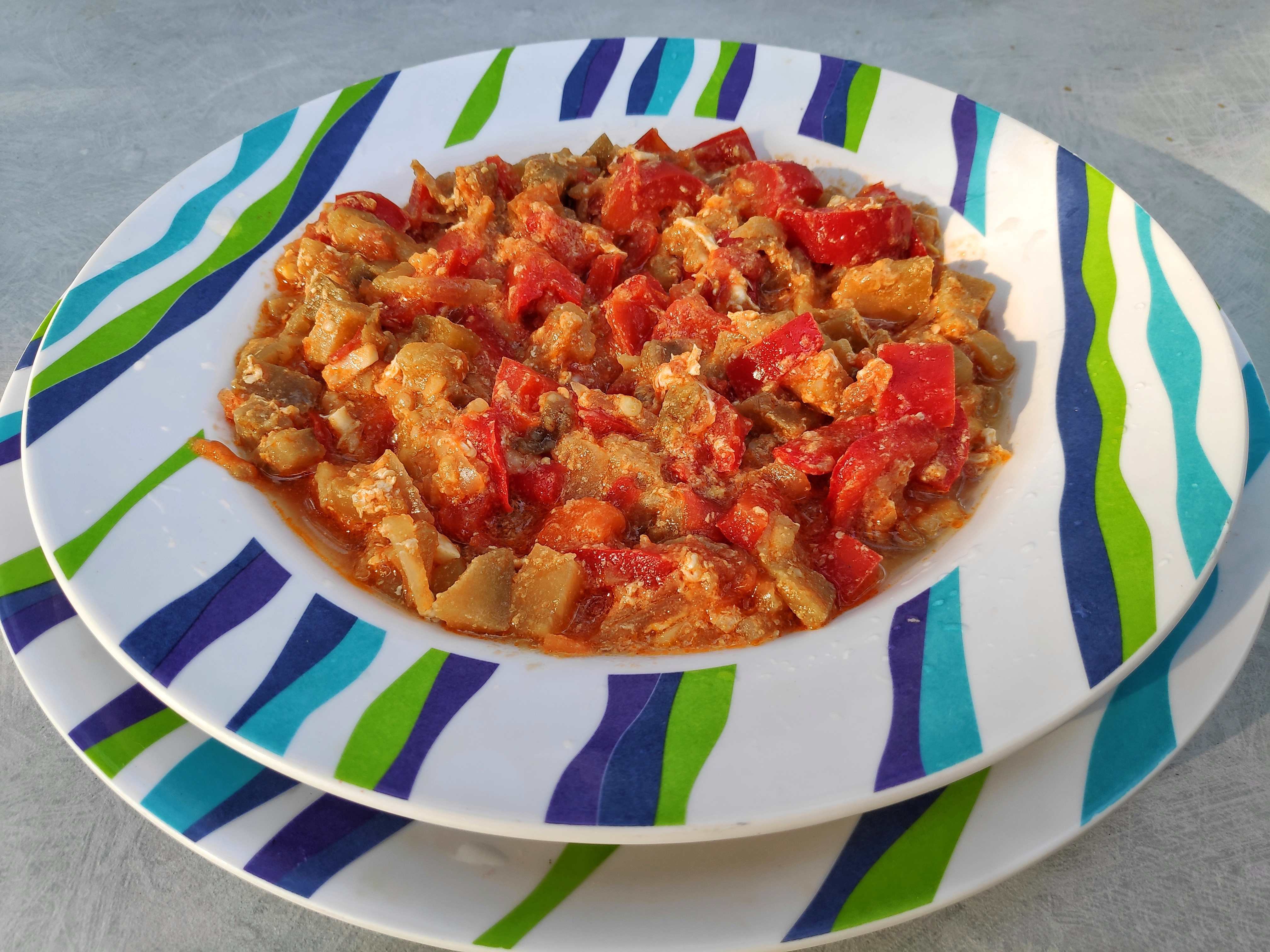 Sataraš (Couisine of Serbia)